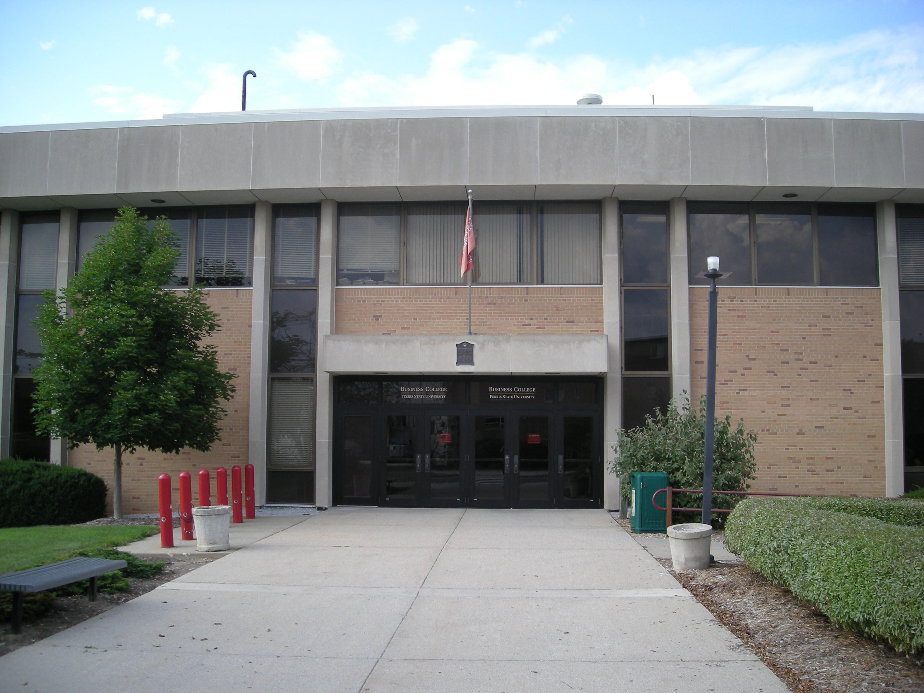 The Business College on the campus of Ferris State University in Big Rapids, Michigan (United States).